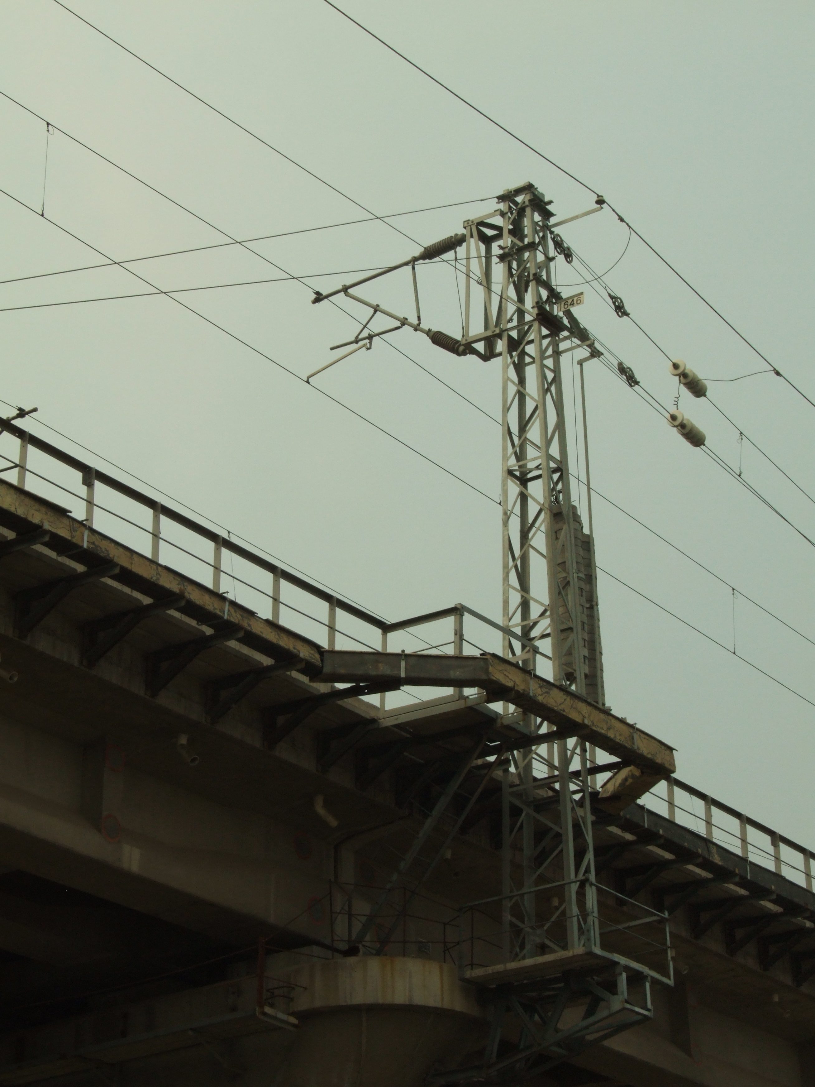 Overhead lines on the railway